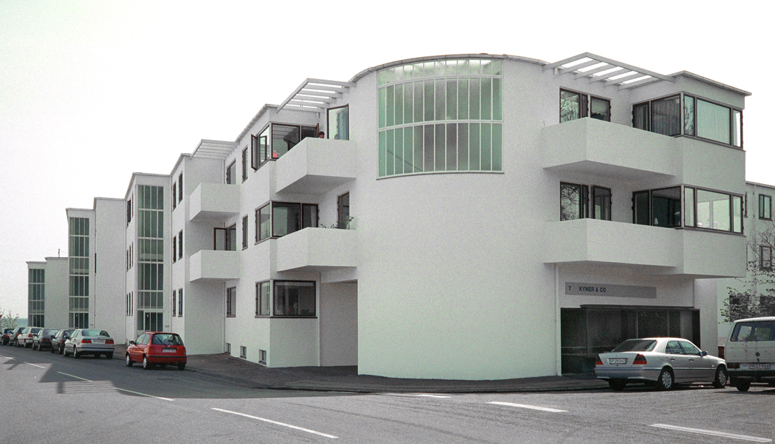 Bellavista housing, northern facade. Strandvejen 419-451, Klampenborg (Copenhagen, Denmark) Architect Arne Jacobsen 1932-34.